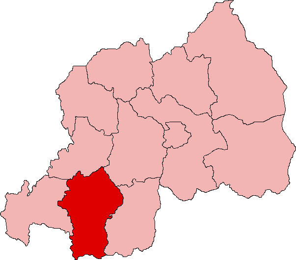 Gikongoro Province Adapted from File:Rwanda Butare.png which was made by User:Acntx.